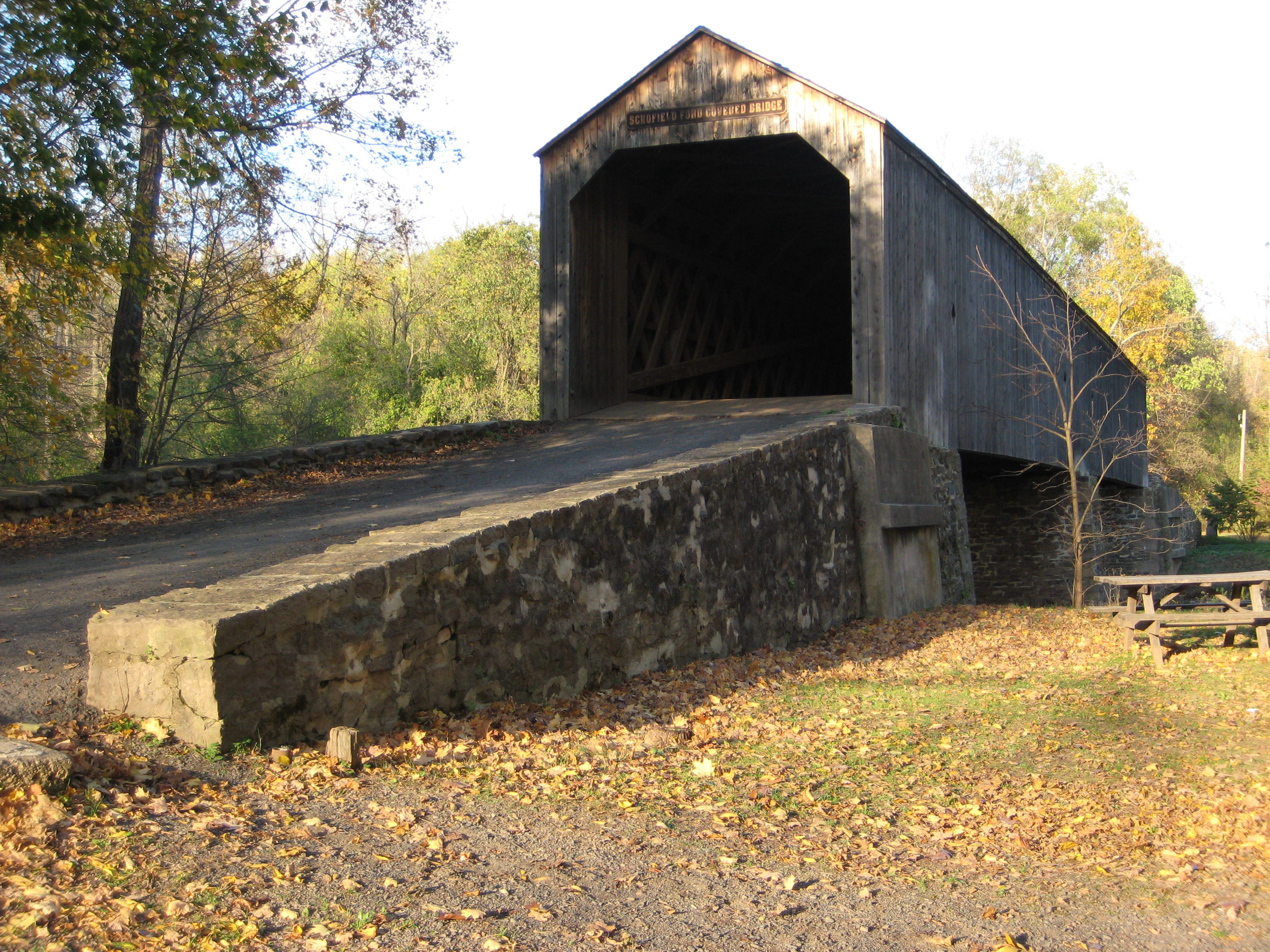 The covered bridge at Schofield Ford, Pennsylvania.